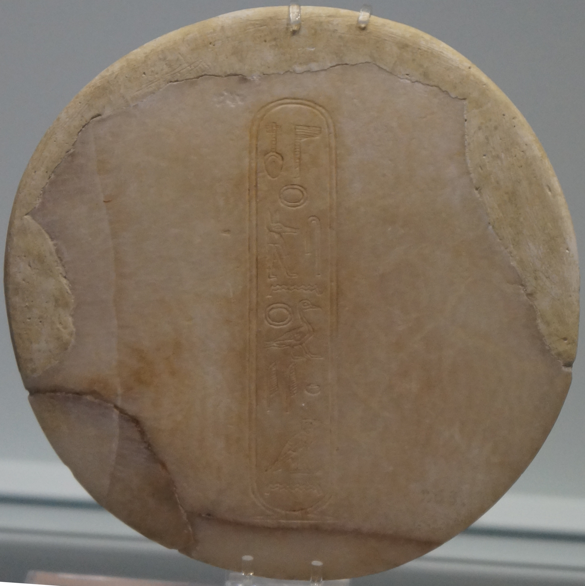 Greece, Crete, Archaelogical Museum of Heraklion, No. Λ 263: Lid of Alabaster of a pyxis with cartouche of hyksos king Khyan. 15th dynasty of Egypt. First half of 16th century BC. It was found under the foundation wall of the north lustral area of Knossos palace.